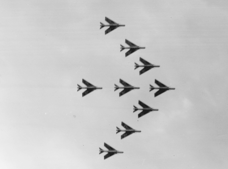 Nine Lightning F.1 of No.74 Squadron RAF display at the 1961 SBAC show, Farnborough